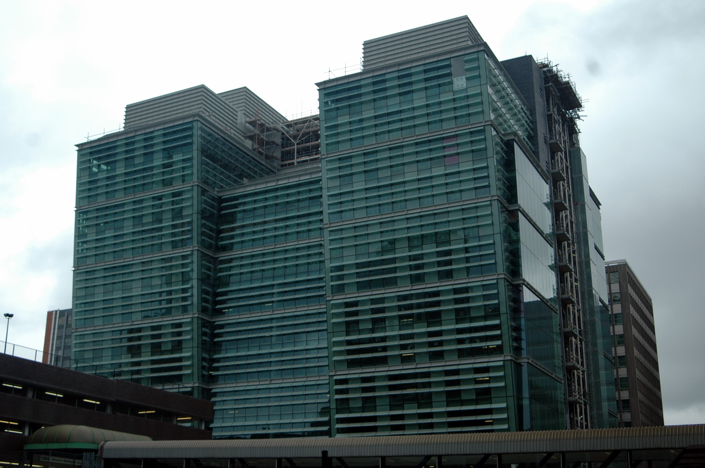 This is a view of the second phase of the Snowhill project in Birmingham. This is an office block, still under construction, viewed from the Snow Hill station side of the site.